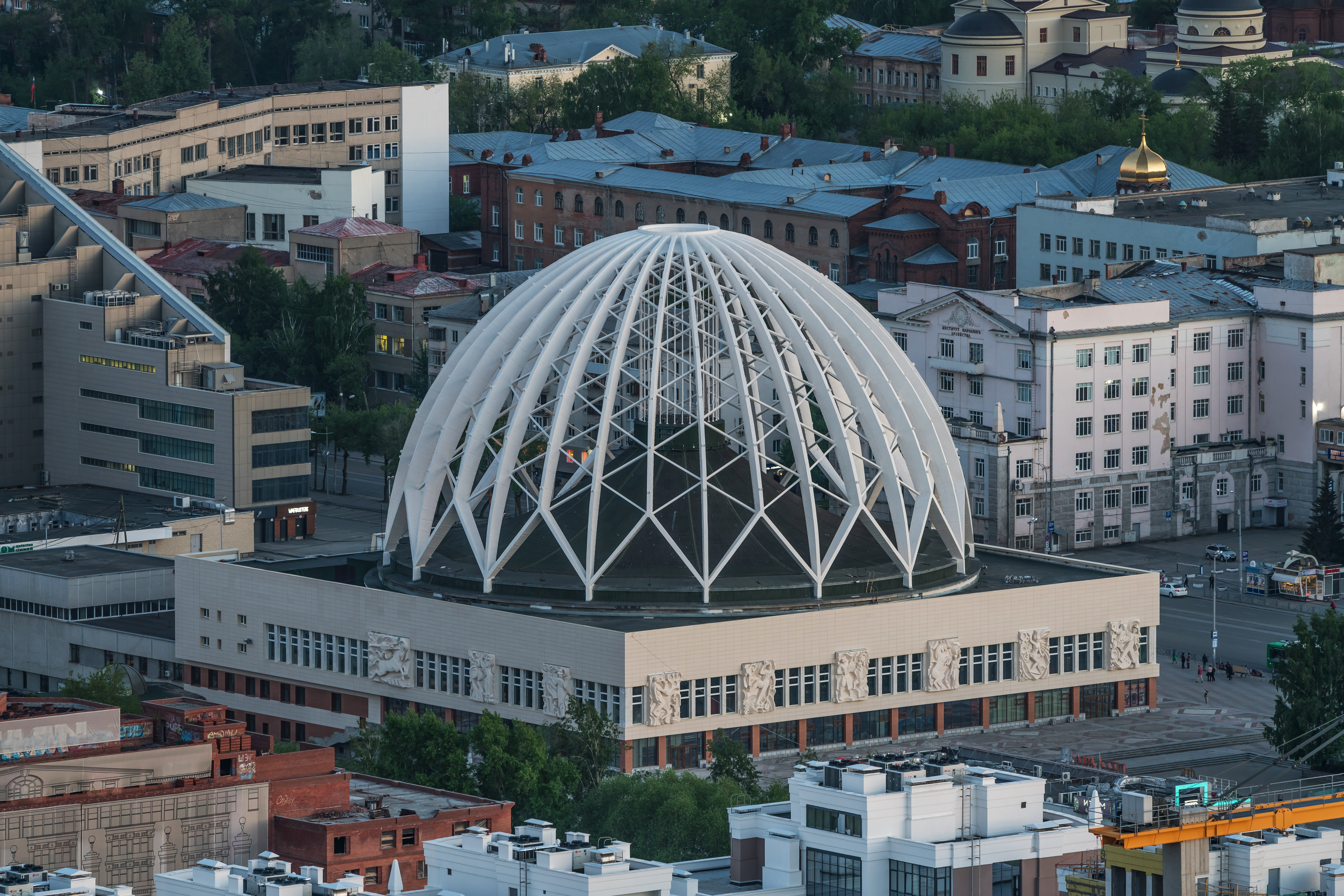 Remote view of the Circus from VysotSky Tower viewpoint in Ekaterinburg, Russia